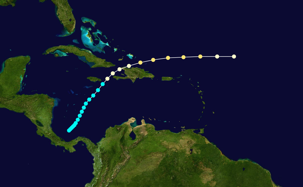 1909 Atlantic hurricane 11 track.png track. Uses the color scheme from the Saffir-Simpson Hurricane Scale.